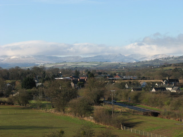 View over Three Cocks, near to Three Cocks, Powys, Wales. The Brecon Beacons in the distance with a light dusting of snow